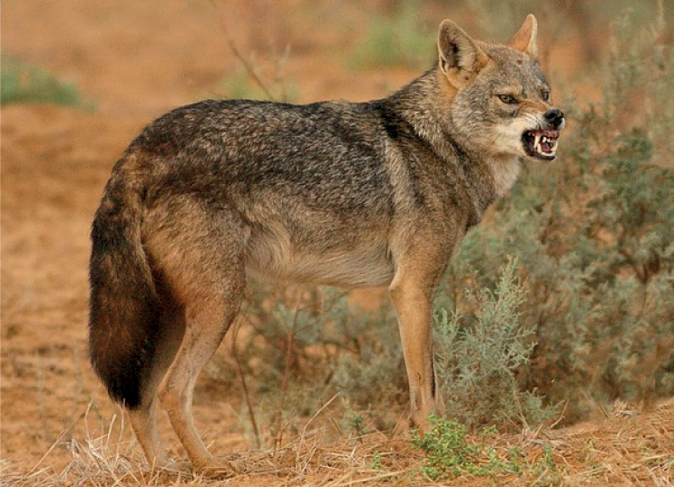 The typical 'wolf-like' phenotype observed near Kheune, Senegal.